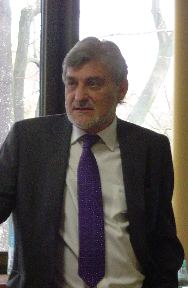 Prof José Luis Gómez Urdañez (Universidad de La Rioja) spanish historian